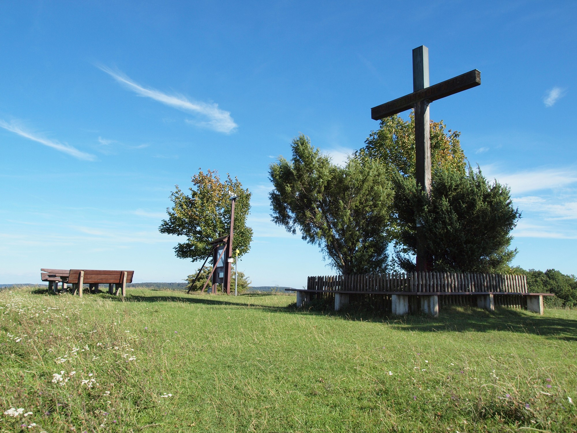 Summit of the Petersberg hill near Marktbergel, Germany